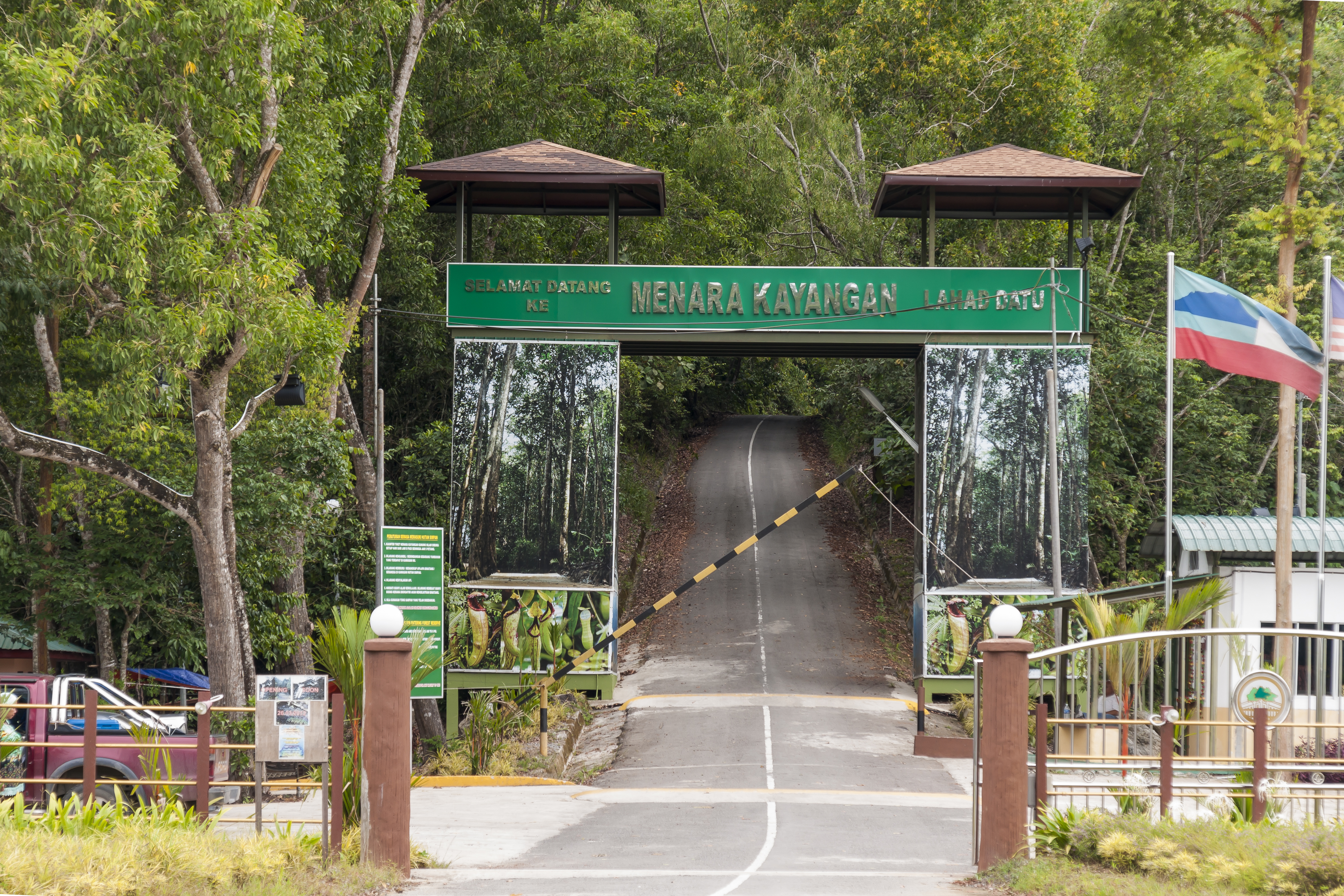 Silam, Sabah: Junction at Silam, with the gate to Menara Kayangan (Tower of Heaven), in Lahad Datu District, Sabah. With access to Radio Station at Mount Silam.